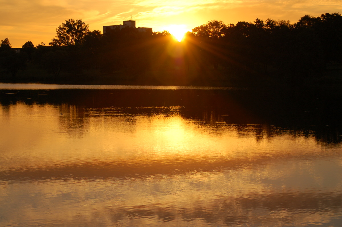 This image shows a Sunrise at Schillerlake in Wolfsburg.